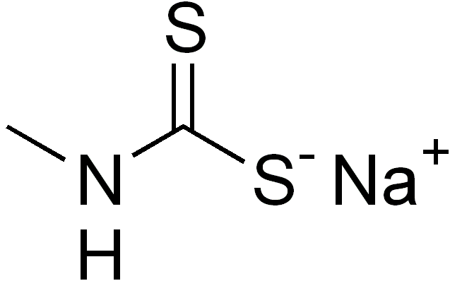 chemical structure of metham sodium (metam sodium)